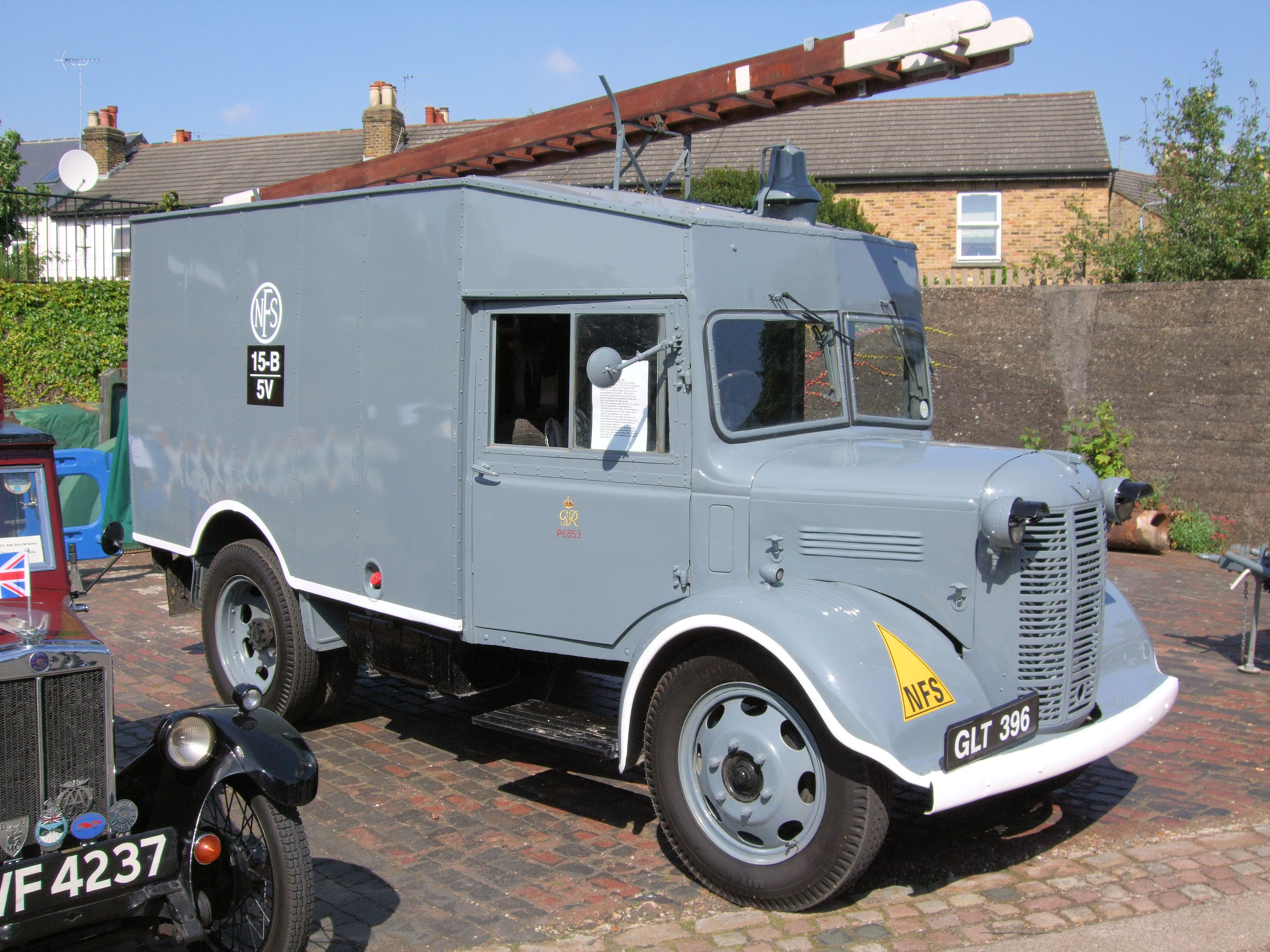 1942 Austin K2 Auxilliary Towing Vehicle of the National Fire Service. Some 4,000 of these vehicles were ordered by the Home Office during the Second World War for the N.F.S. who used them to tow heavy trailer pumps.Based on the 2 ton lorry chassis,they were fitted with utility bodywork accomandating a crew of six,hoses and a 30ft ladder.The Austin K2 units were not designed to carry water,they just carried equipment and crew.